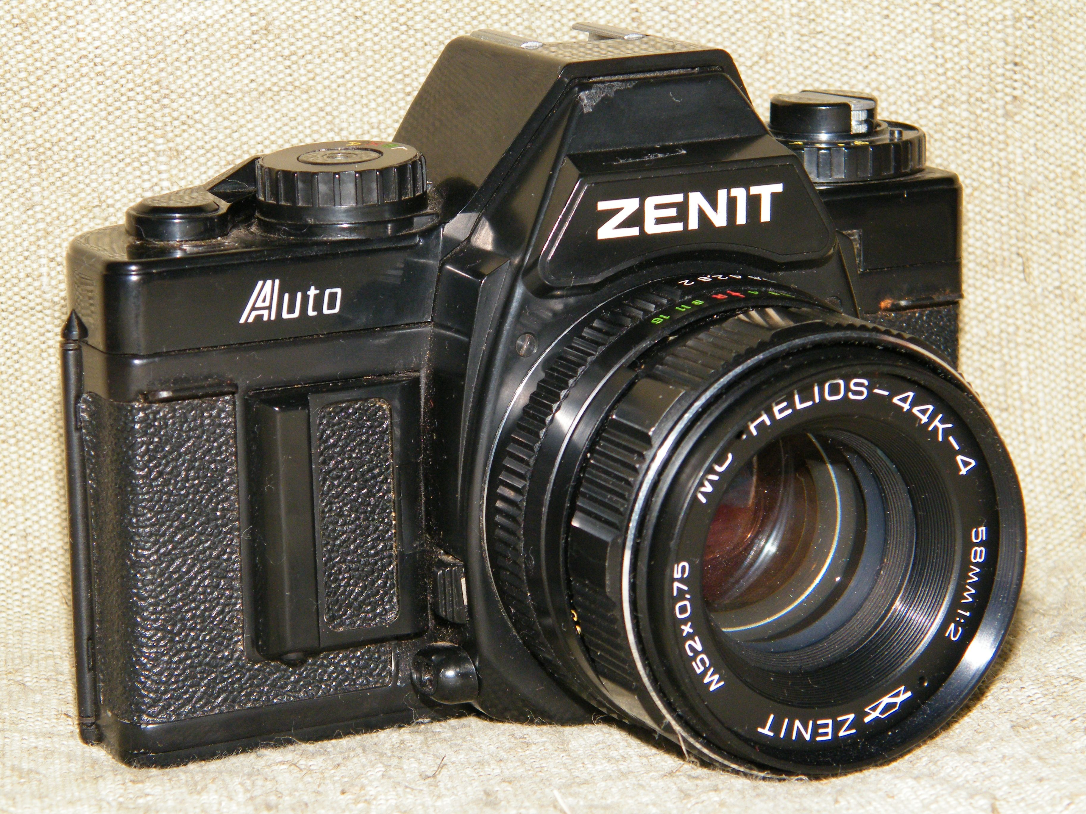 Zenit avtomat